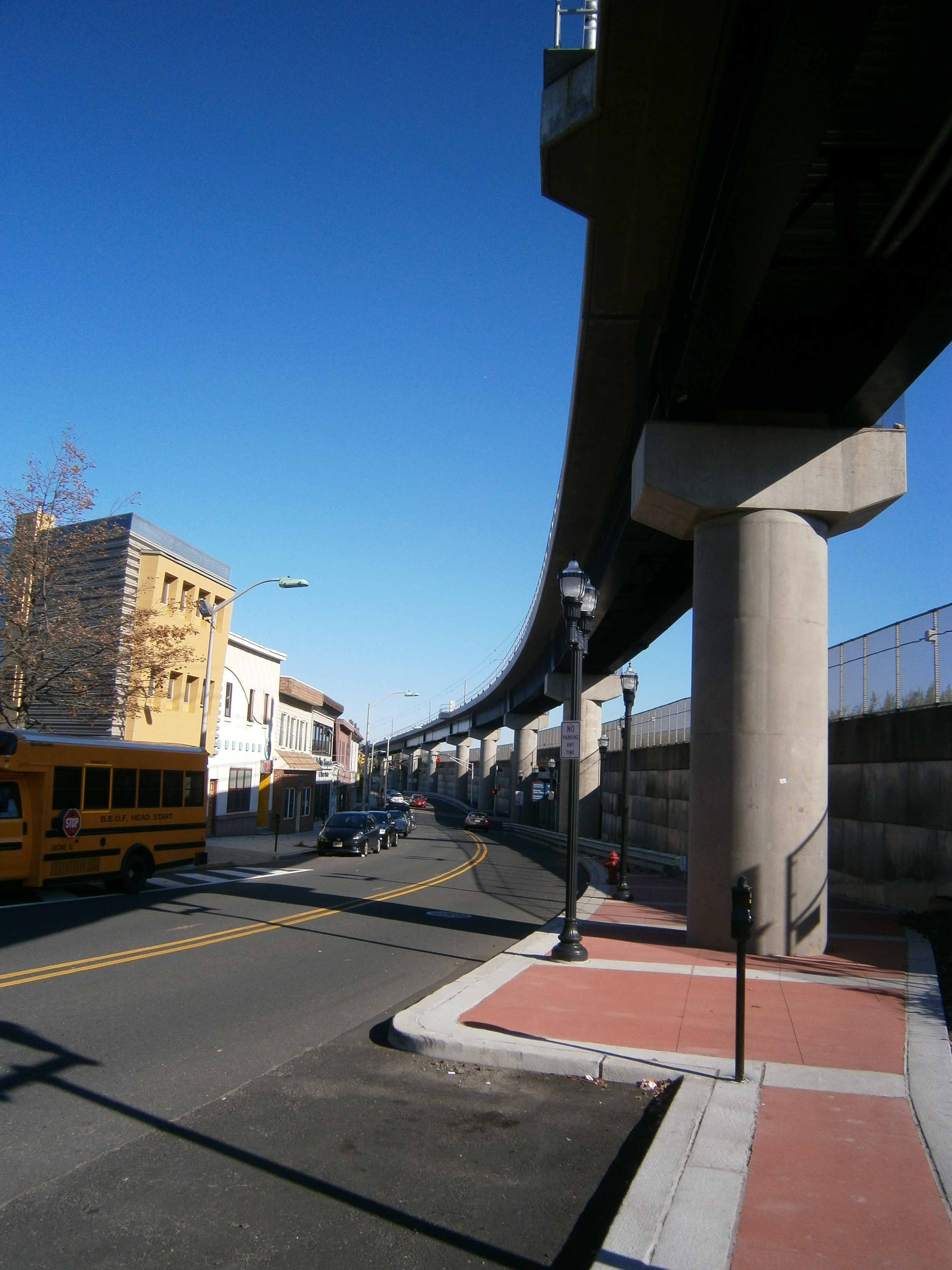 Hudson Bergen Light Rail singlle-track viaduct connects 8th Street Station to ROW and 22nd Street Station